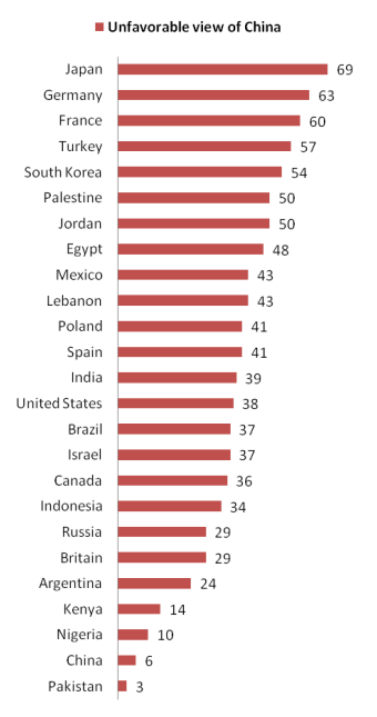 Unfavorable view of China, based on 2009 Pew Global Attitudes survey